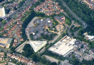 Close up of photograph of Millbrook area of Southampton